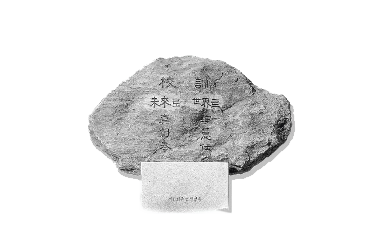 Motto of Doowon Technical University